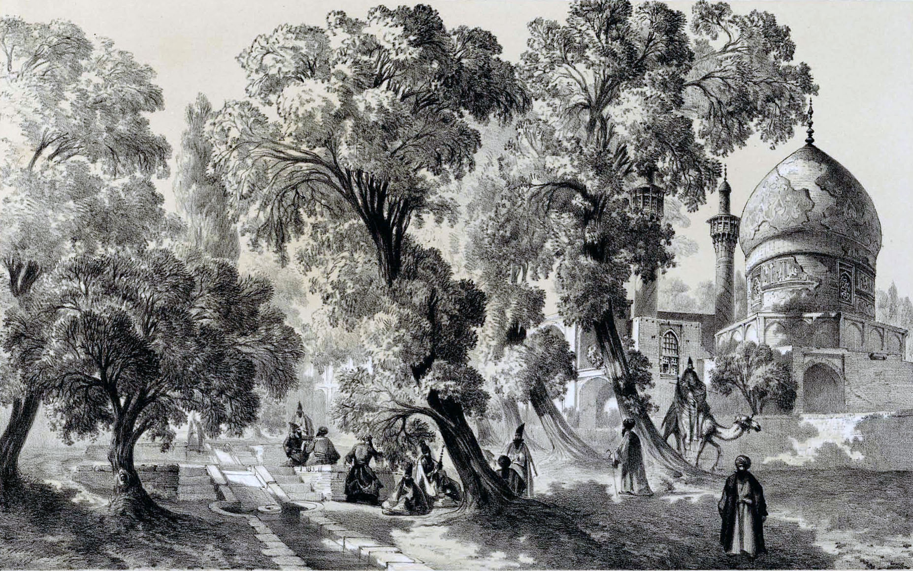 [Avenue Char Bagh and] Mosque Shah Sultan Hussein